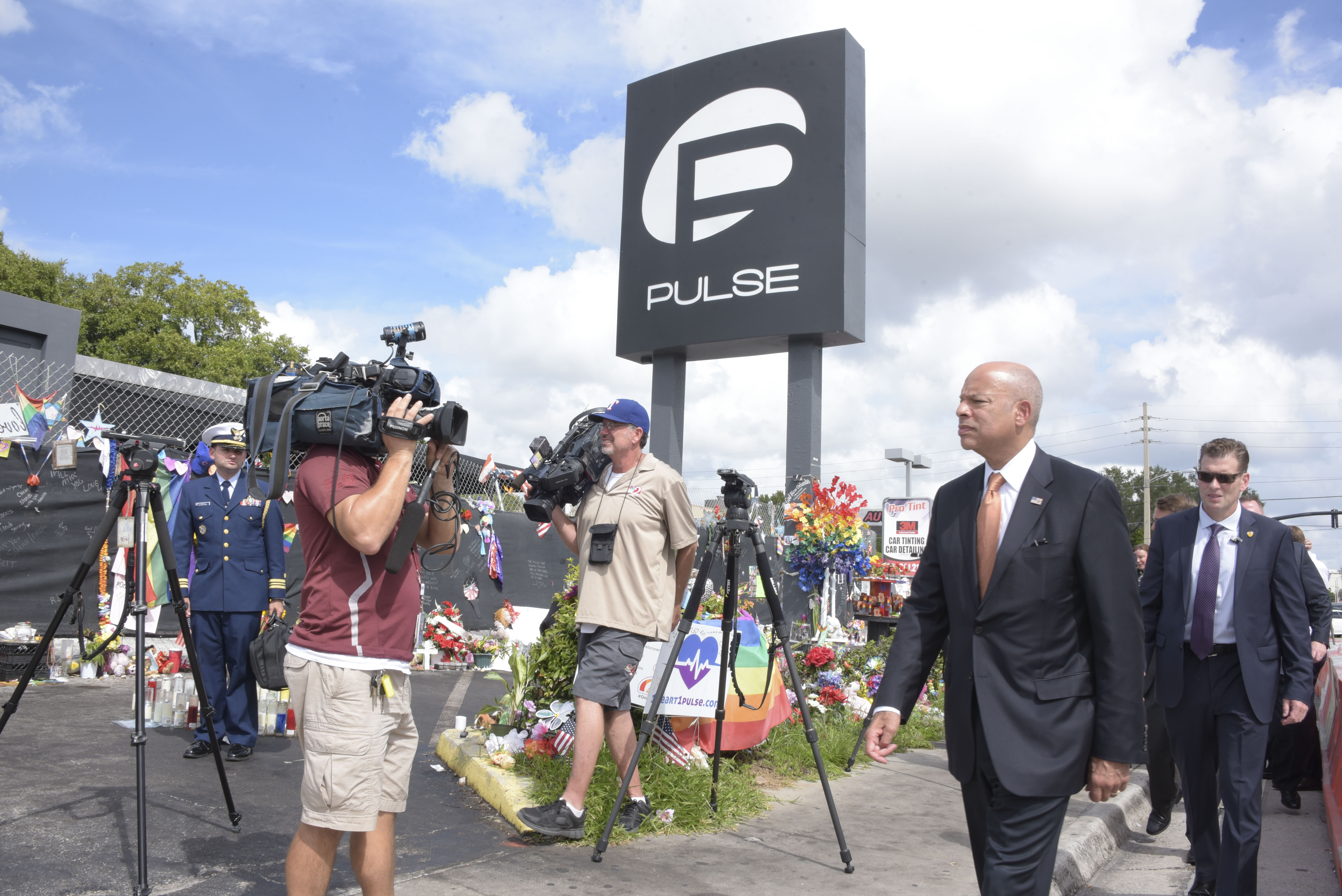 ORLANDO - Secretary of Homeland Security Jeh Johnson visits Pulse Nightclub on the three-month anniversary of the shooting which left 49 people dead in Orlando, Sept. 12, 2016. Secretary Johnson viewed the inside of the nightclub before laying flowers at a makeshift memorial outside of the club where he spoke to a chaplain there who had assisted those impacted by the shooting. Official DHS photo by Jetta Disco.